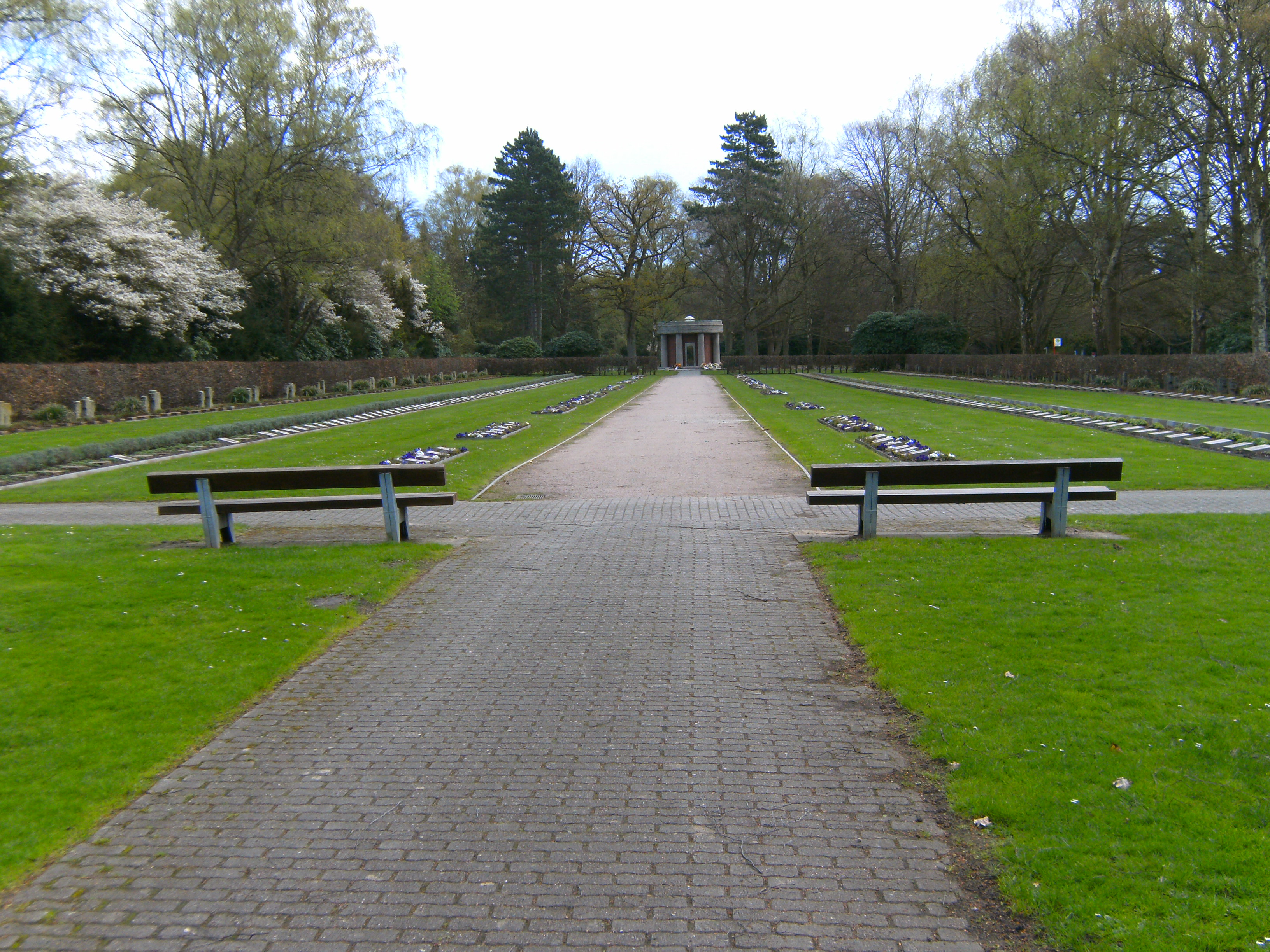 Deutsche Kriegsgräberstätte Hamburg-Ohlsdorf (German military cemetery). Area: Graves from March 1942 on.